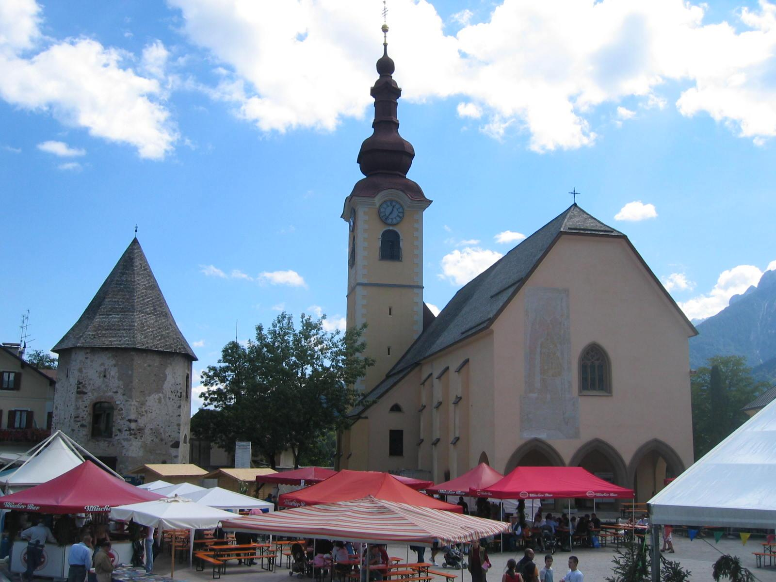 Tarvisio (Trbiž), main square photo:Ziga 08:16, 9 February 2007 (UTC)